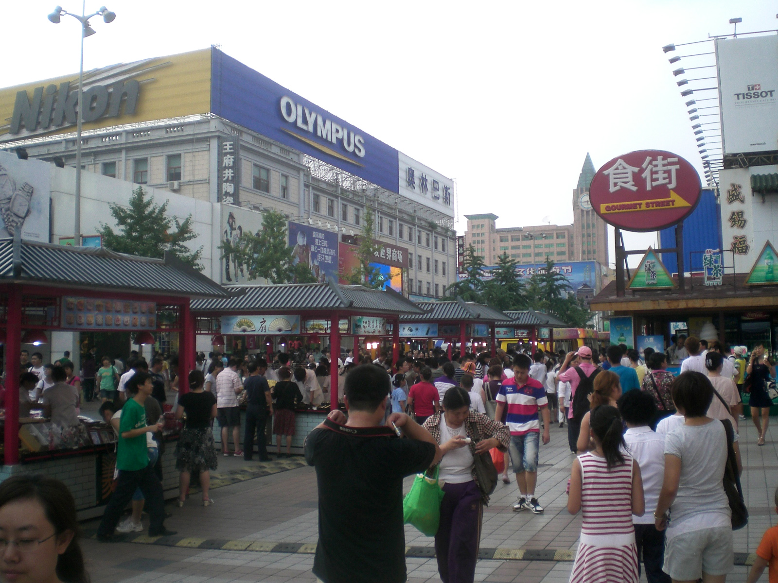 北京市東城區王府井王府井大街 行人專區